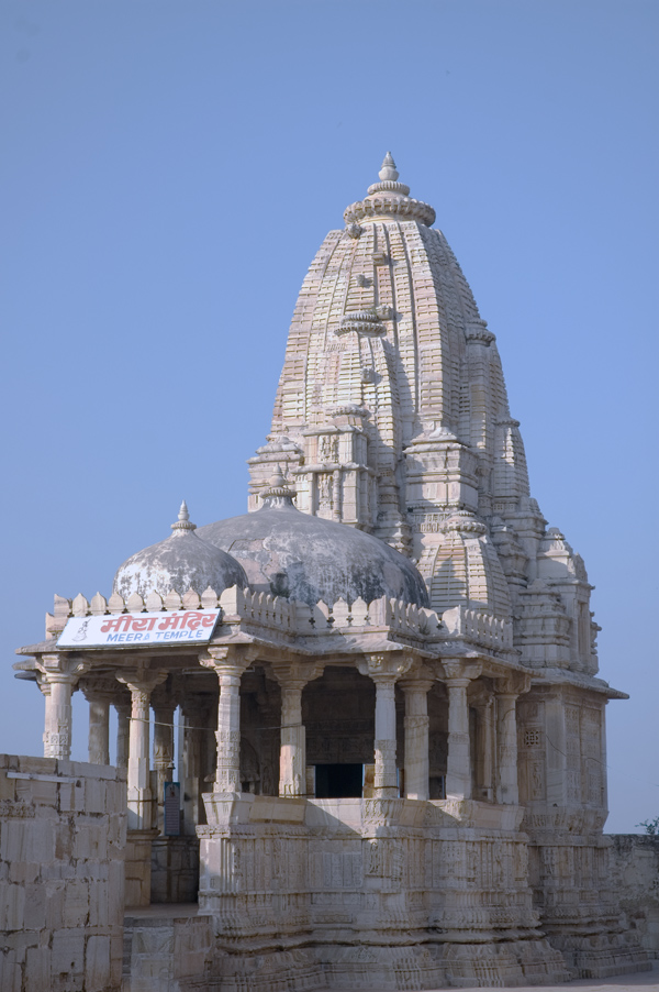 Meera Temple, Chittorgarh Fort, Rajasthan.